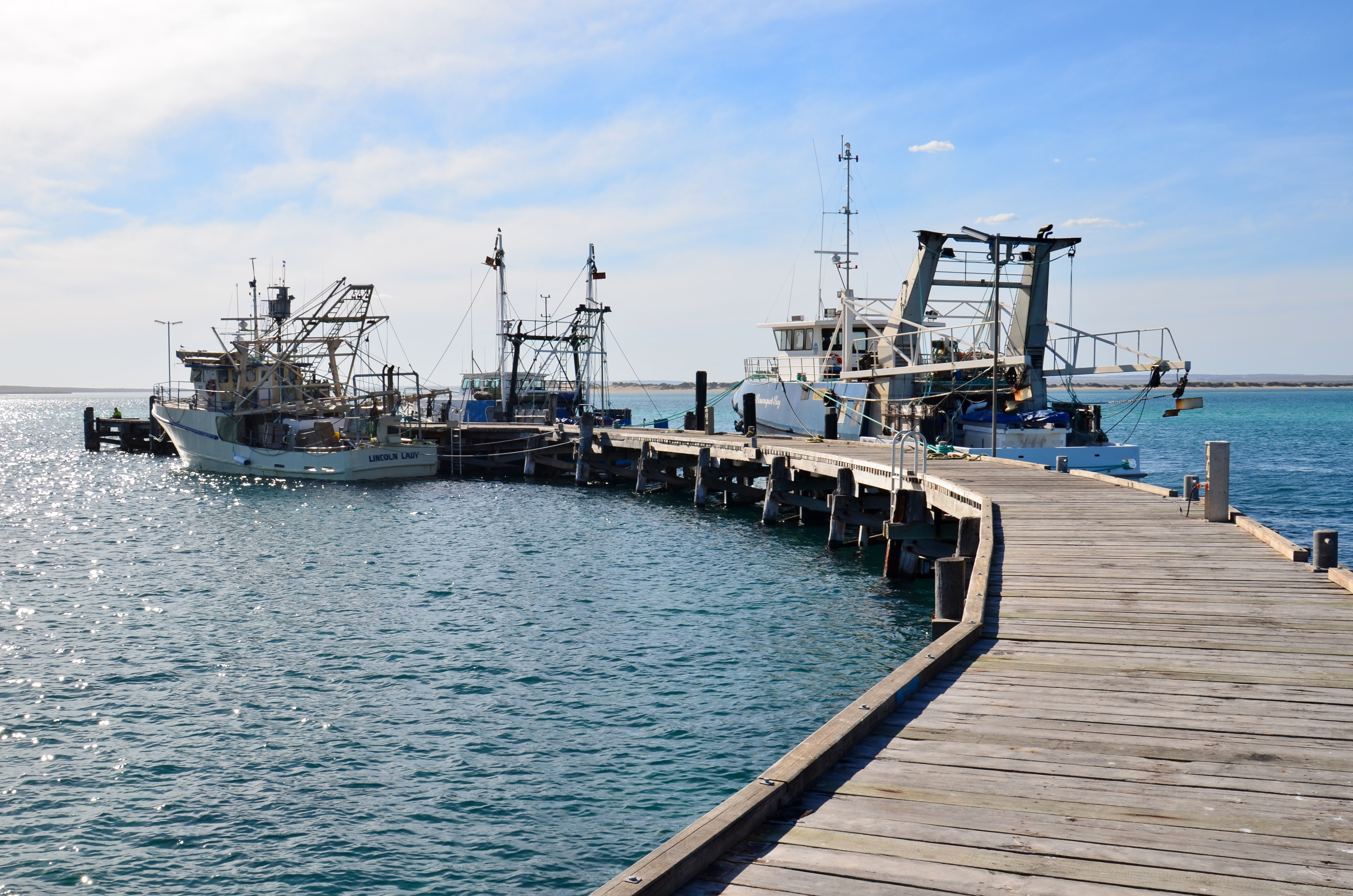 View of the Venus Bay Jetty, Venus Bay, South Australia